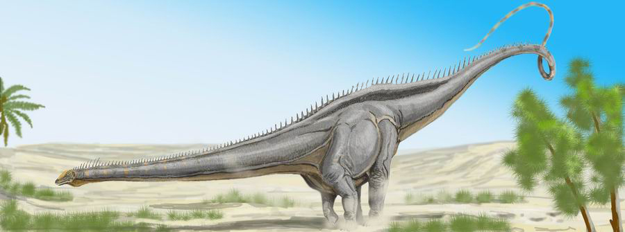 "Seismosaurus". Seismo (Diplodocus hallorum). Diplodocus. D. hallorum (formerly known as Seismosaurus). Diplodocus was one of the longest dinosaurs.